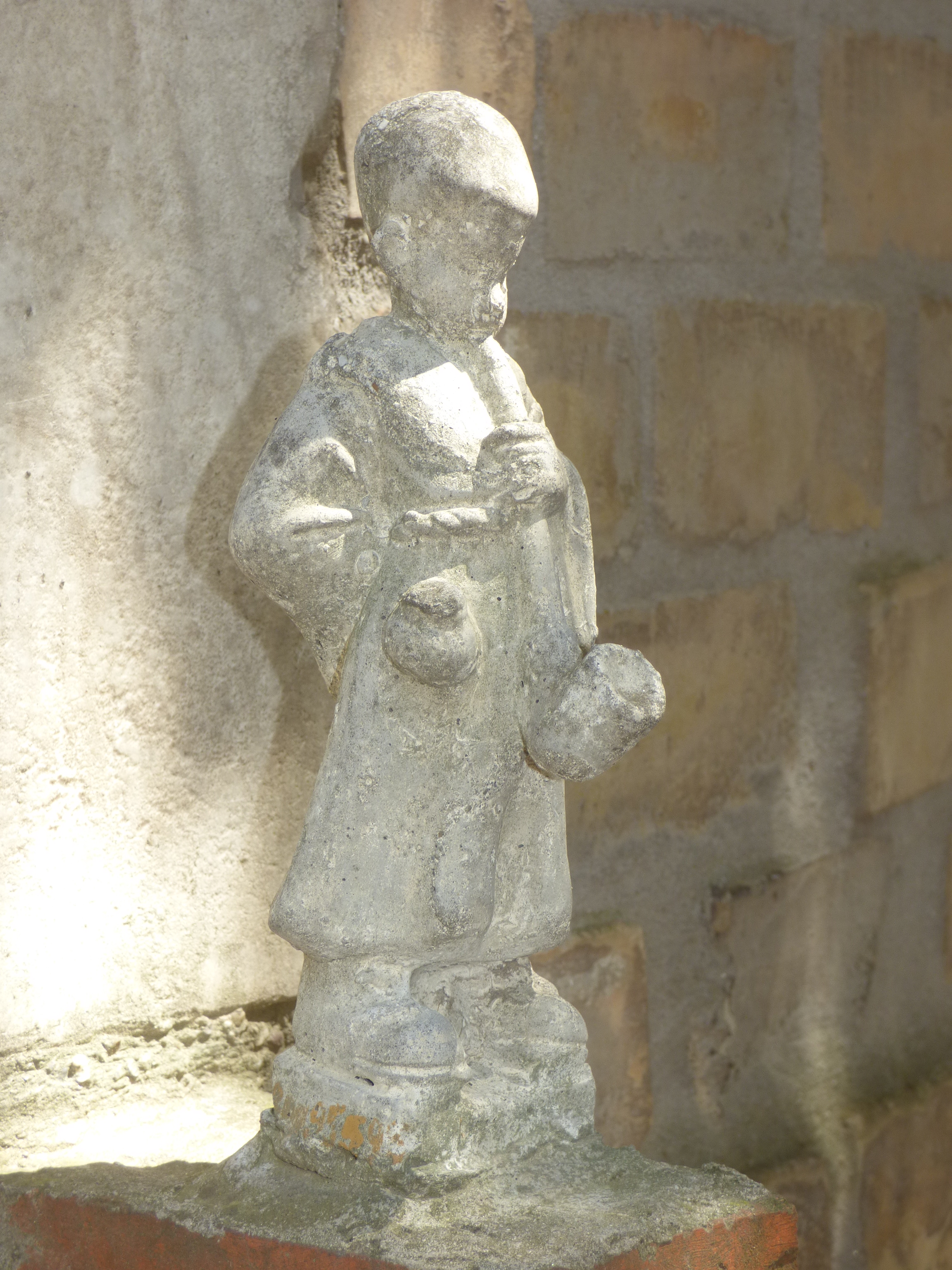 Pipás Pista szobra a Bory-várban